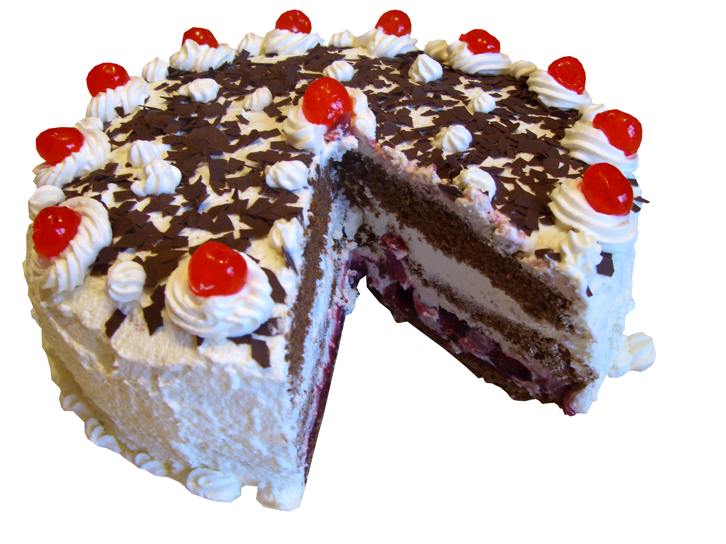 Black forest cake